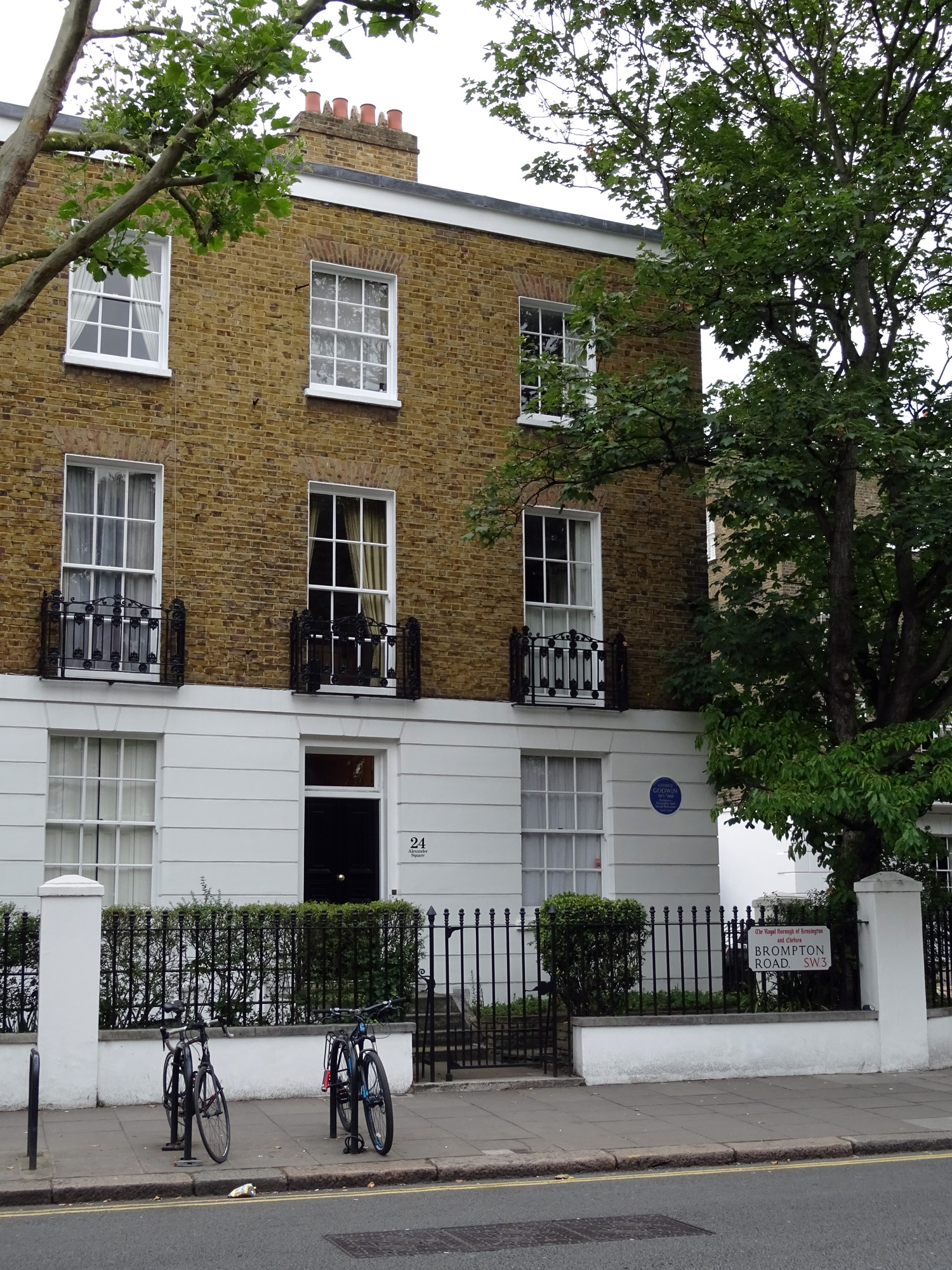 GEORGE GODWIN 1813–1888 Architect Journalist and Social Reformer lived here